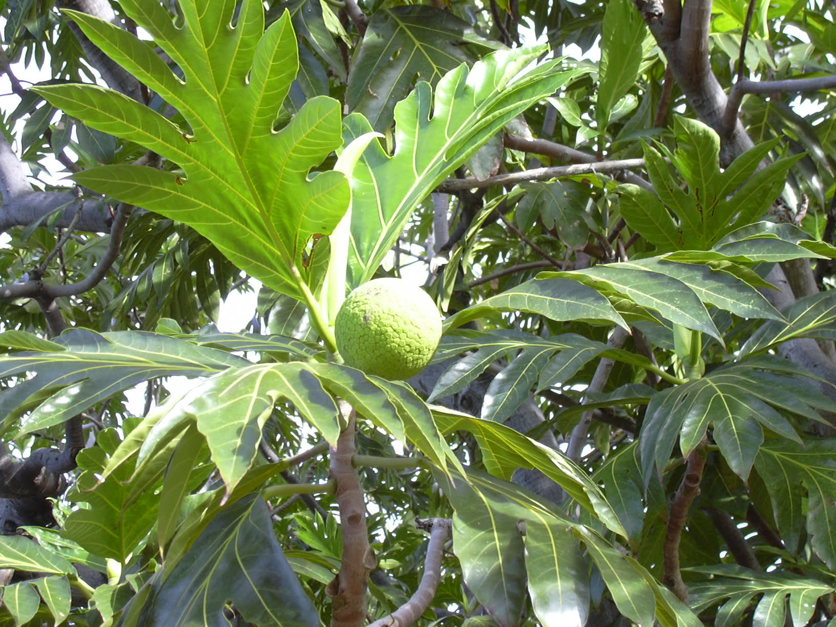 Artocarpus altilis (leaves and fruit). Location: Maui, Puehuihueiki cemetary Lahaina